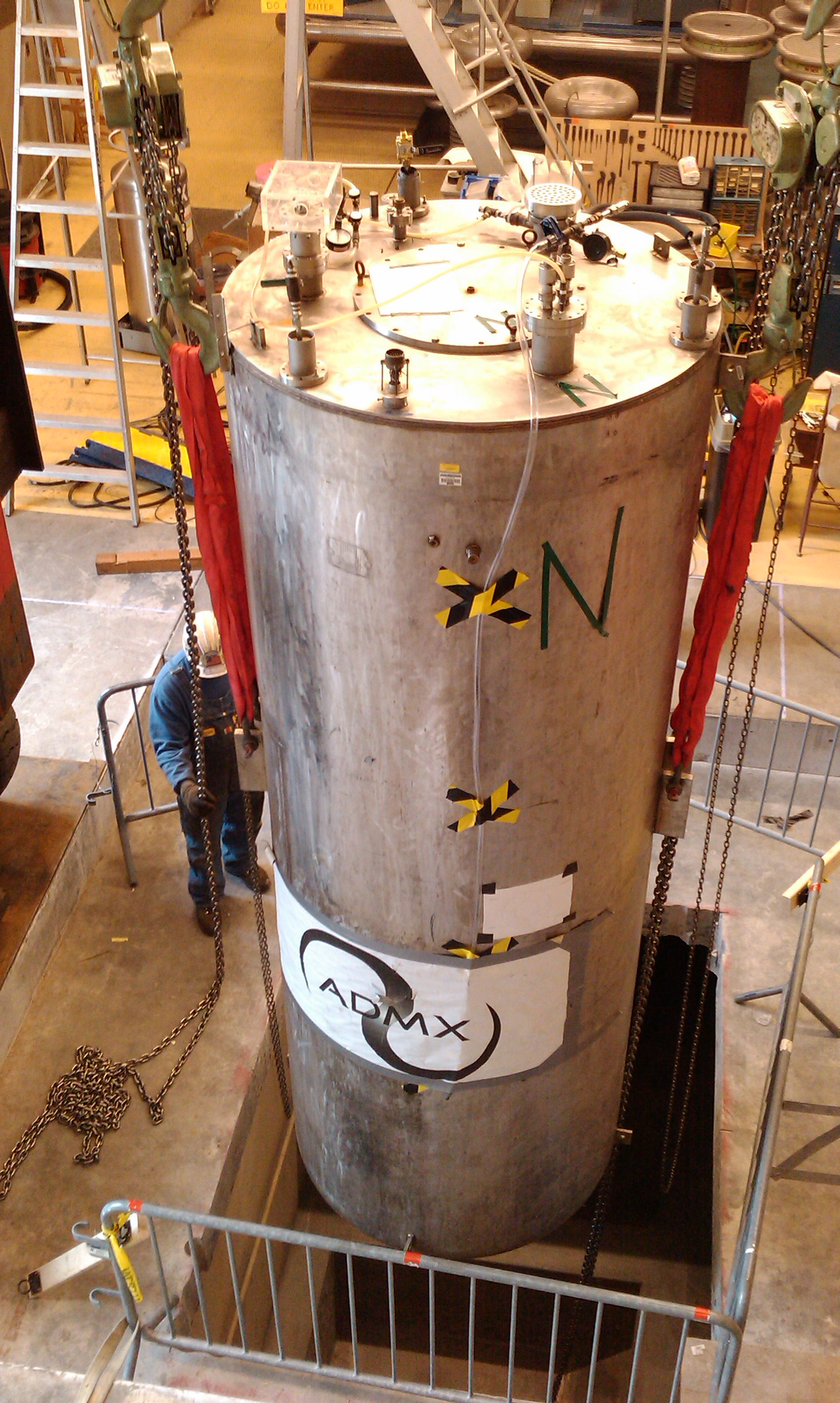 The 8.5 Tesla ADMX magnet being installed at the University of Washington, Seattle